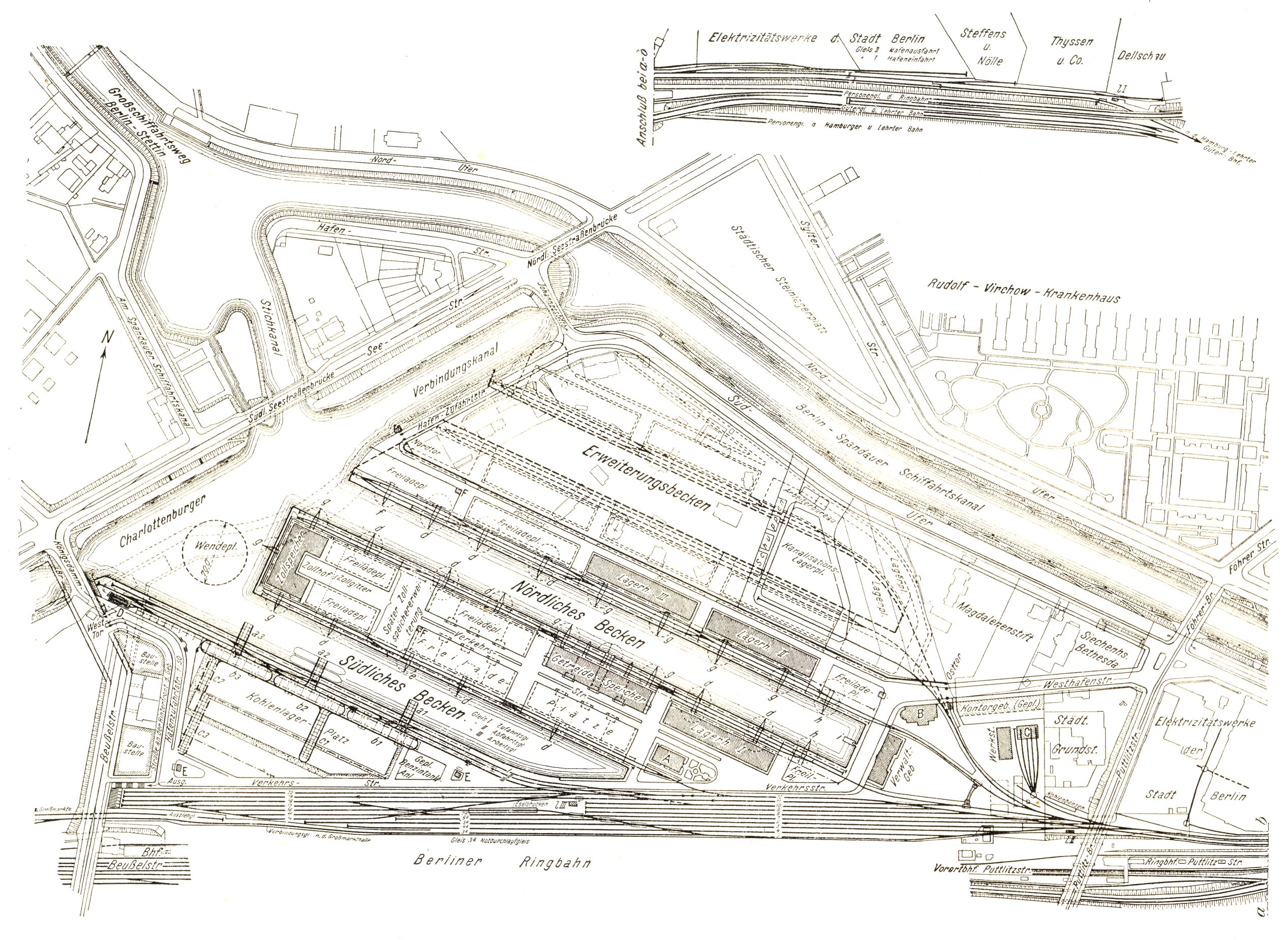 Berlin - Westhafen, situation plan (1923) by Friedrich Krause